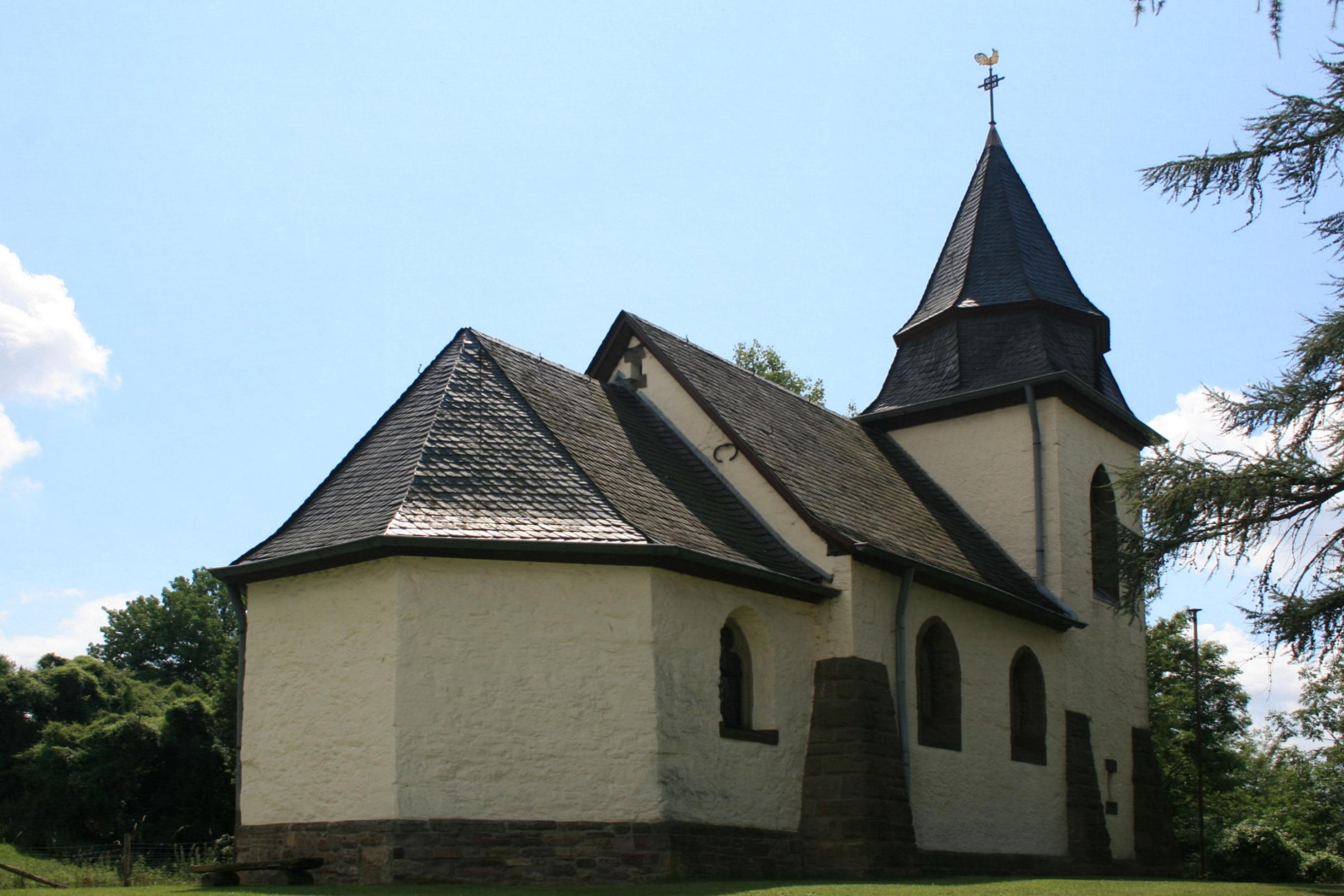 Cultural heritage monument No. 12 in Heimbach